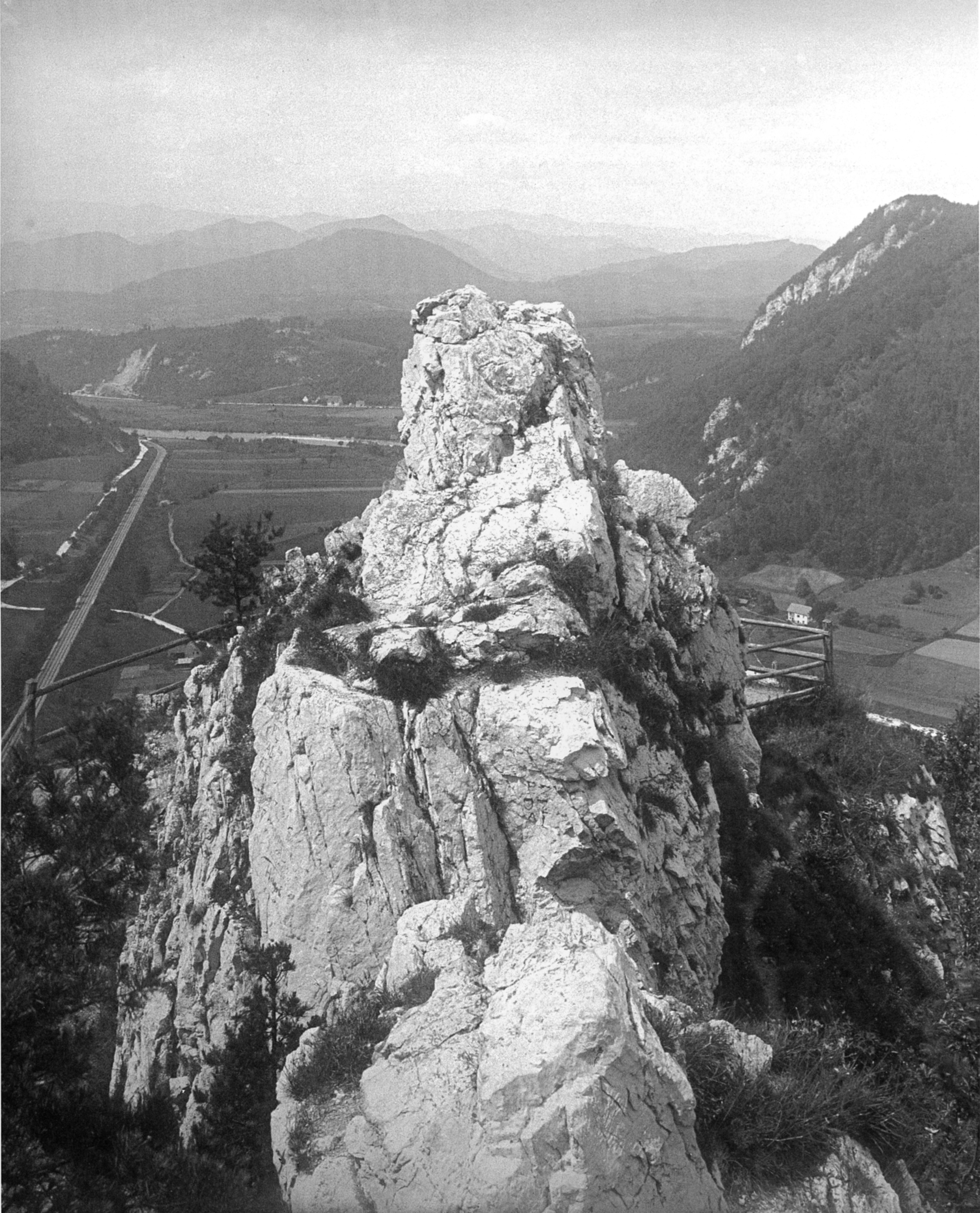 Petschar, Friedlmeier, Steiermark in alten Fotografien, Ueberreuther Verlag Wien. Scanprojekt Community Projektbudget 2012 This scan or this PDF-file was created within the GLAM-project Bookscanning, supported by Wikimedia Germany and Wikimedia Austria as a part of the community-project to capture books, documents and pictures which are not eligible to copyright or for which the copyright has expired. This document describes or depicts an object which is located in Austria today. Texts are written German language. Send requests for uncompressed scans to Hubertl. This work is in the public domain in its country of origin and other countries and areas where the copyright term is the author's life plus 100 years or fewer. You must also include a United States public domain tag to indicate why this work is in the public domain in the United States. This file has been identified as being free of known restrictions under copyright law, including all related and neighboring rights.